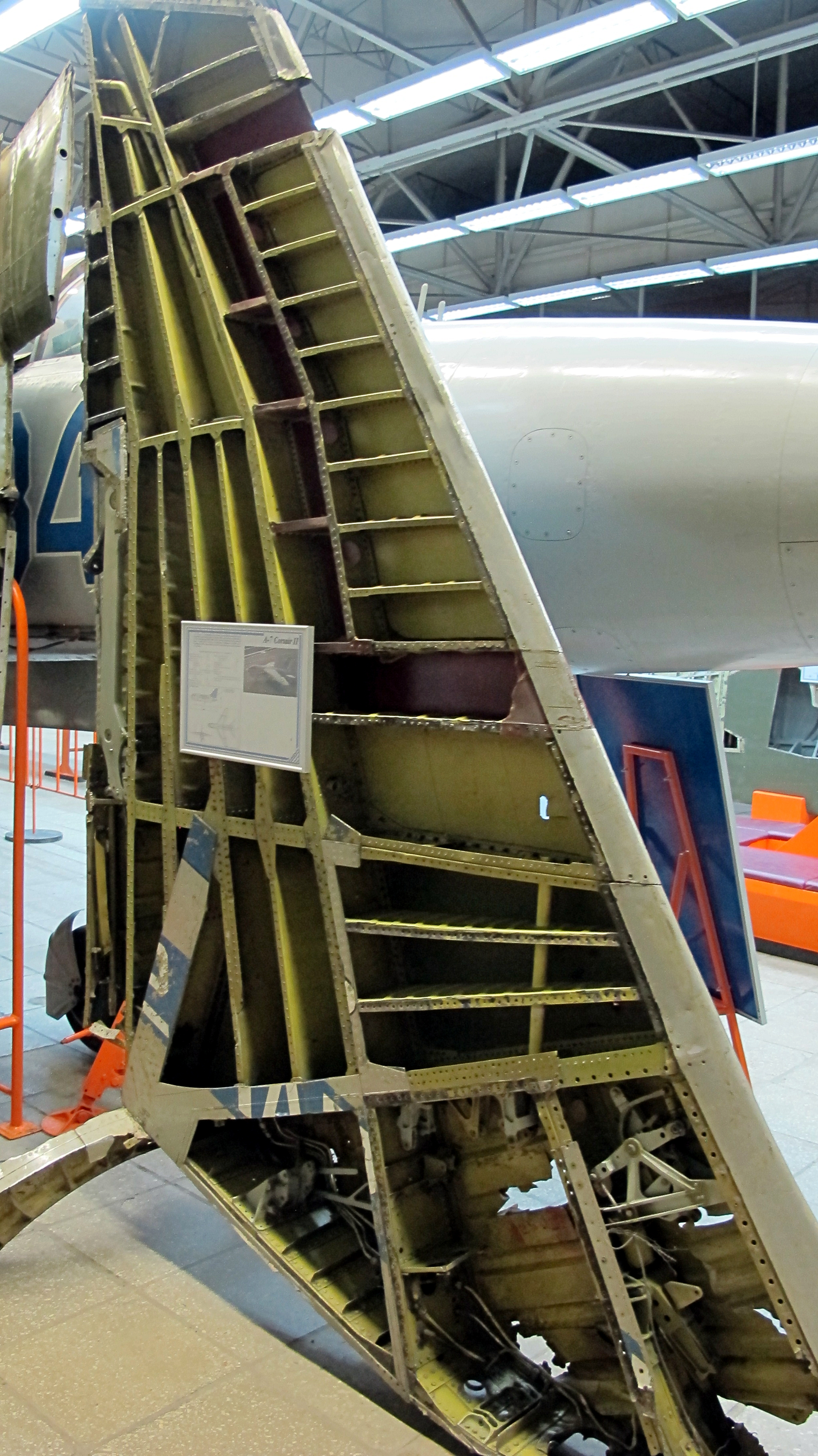 Wikitrip to MAI museum 2016-02-02. A-7 Corsair II